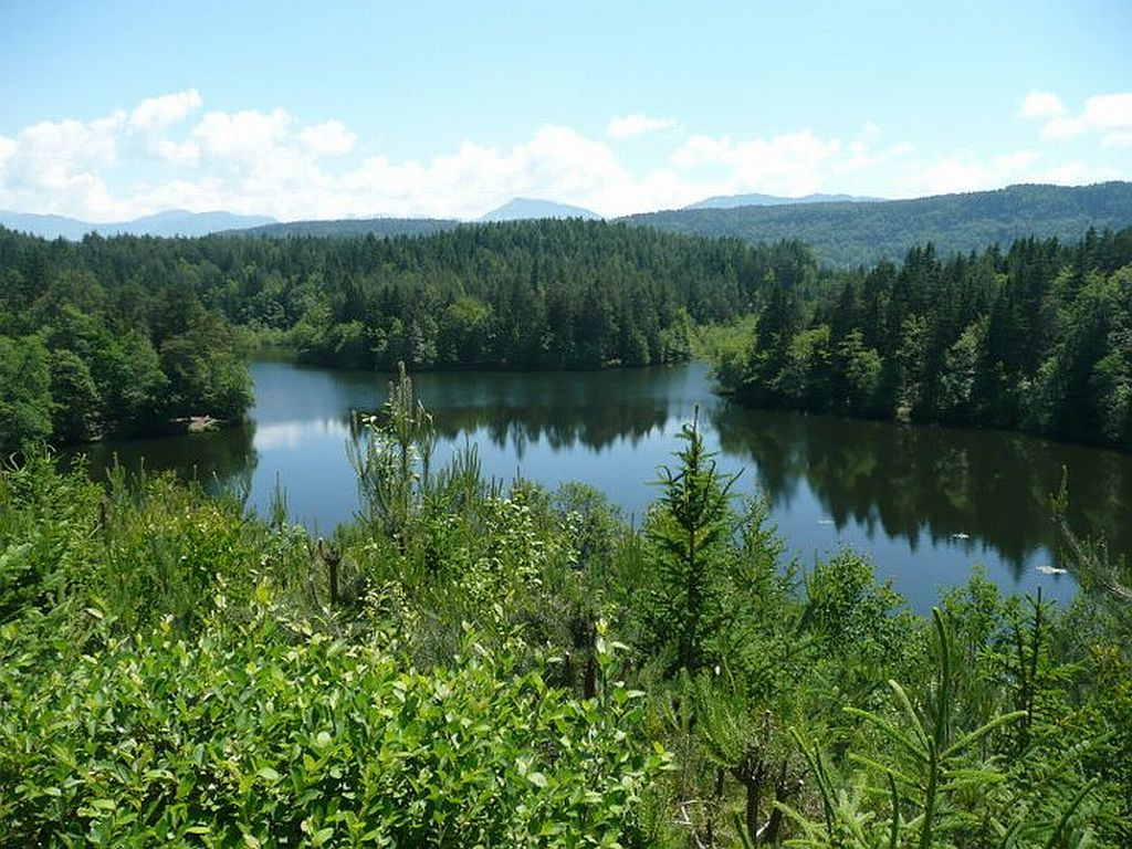 Pond "Spintik", municipality Keutschach, district Klagenfurt Land, Carinthia, Austria, European Union